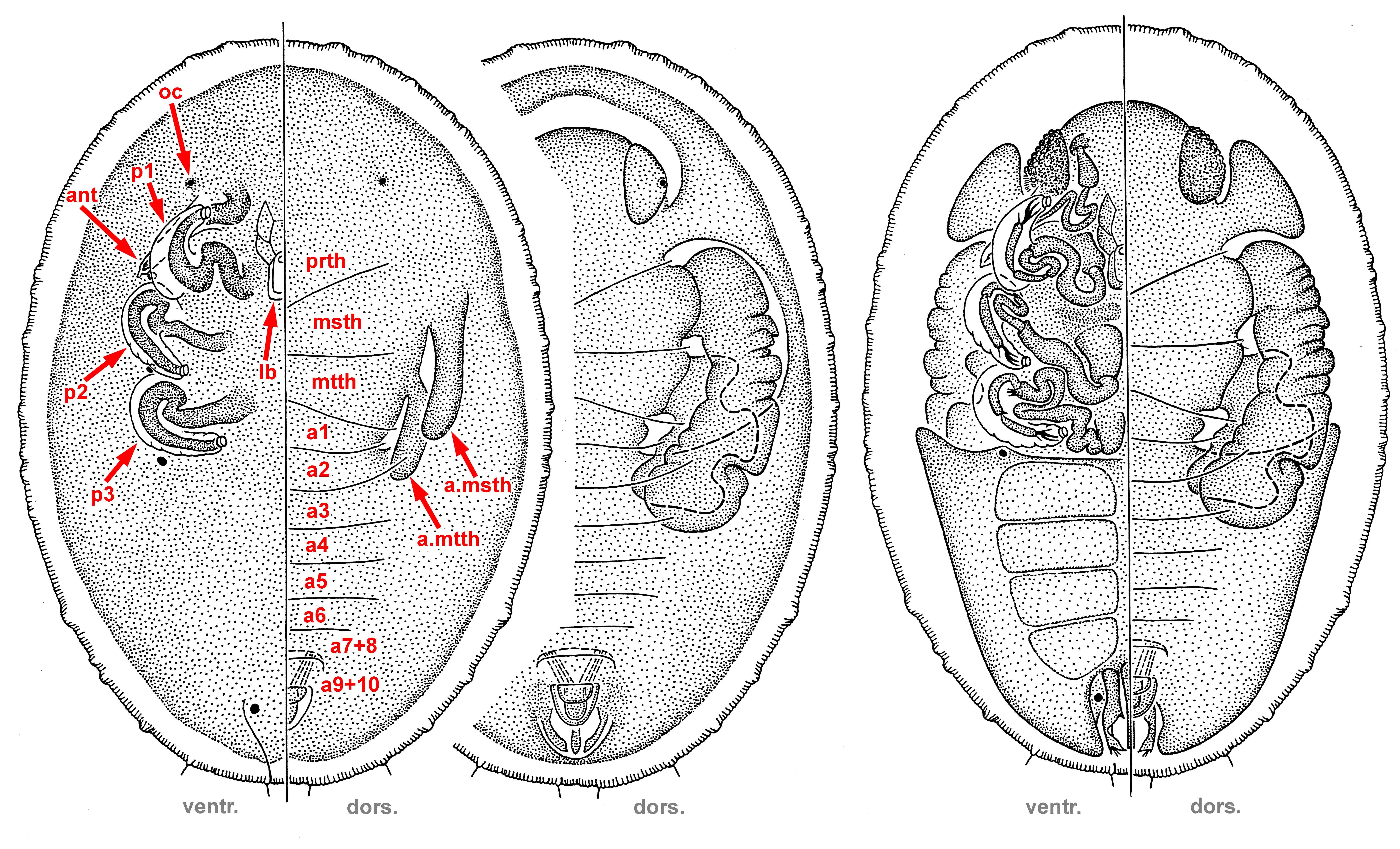 Three subsequent stages of transformation before molt from larva to imago in Aleyrodes proletella